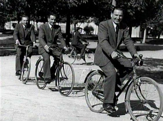 Maserati brothers cycling. From left: Bindo (for sure), then Ettore and Ernesto (or the other way). Location perhaps Bologna where they had their work. Zagari/Testi caption: "Ernesto, Bindo and Ettore Maserati Modena, 1941" [1]